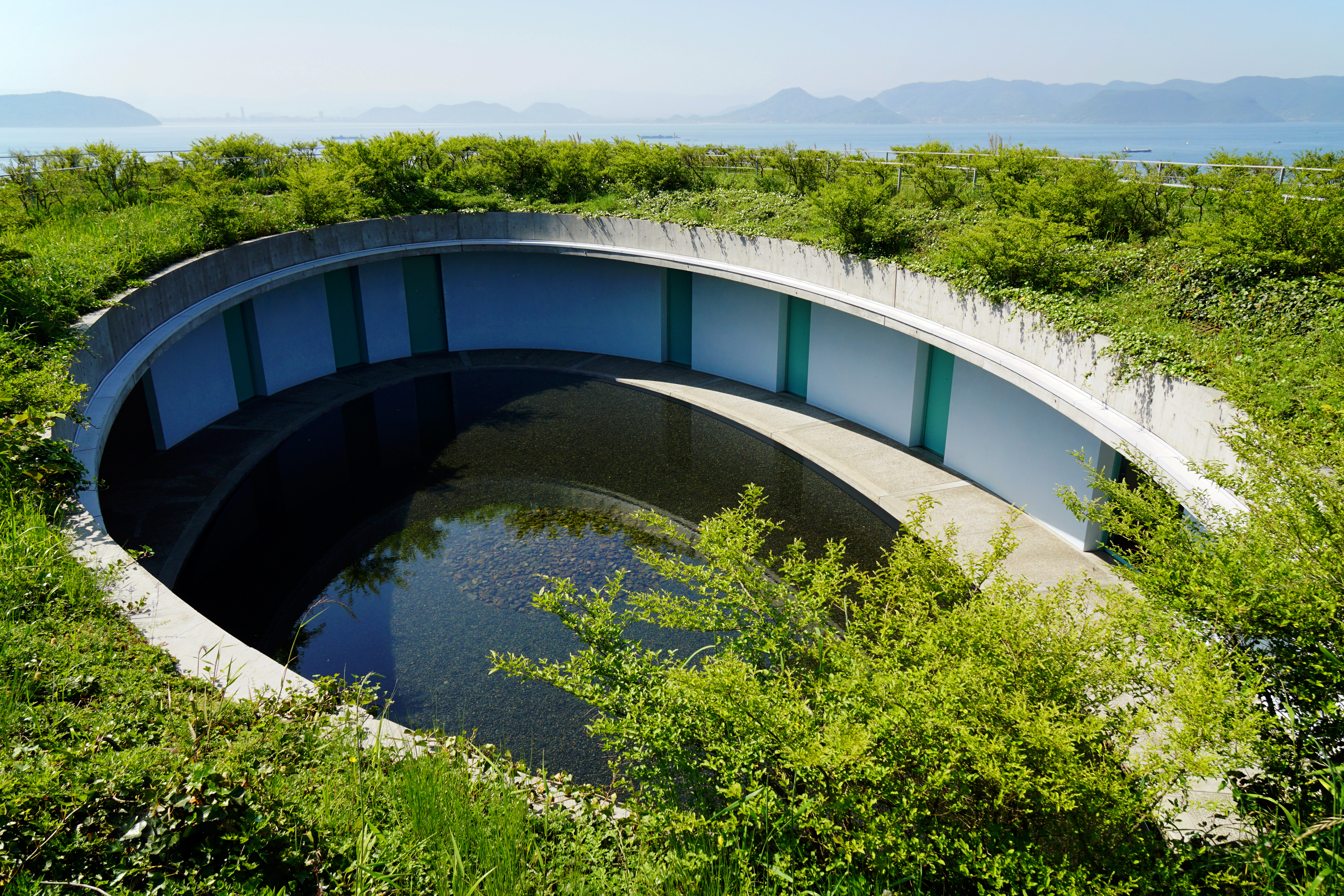 Benesse House "Oval" of Benesse Art Site Naoshima in Naoshima, Kagawa prefecture, Japan